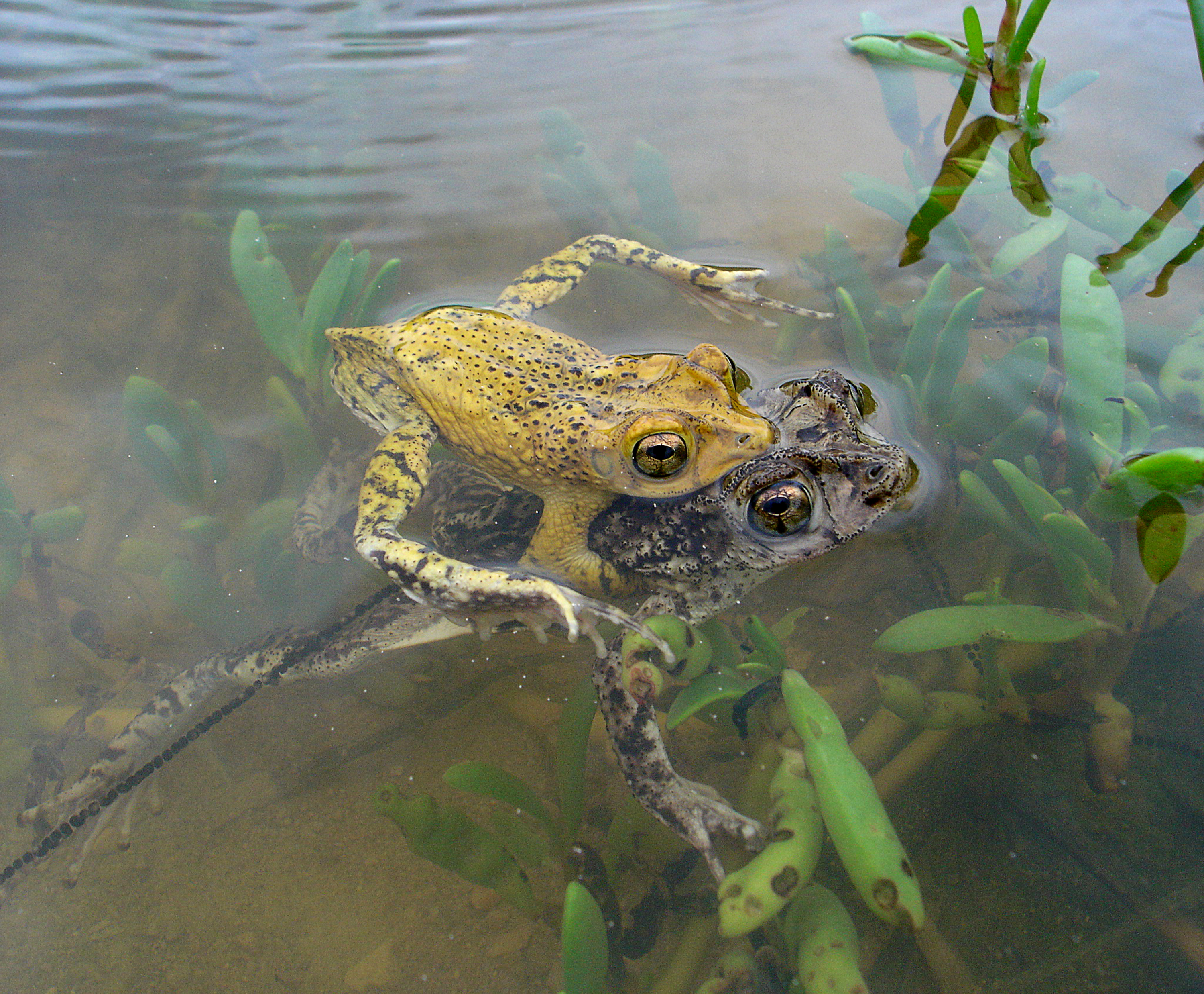 Male and female Bufo lemur in mating position. The critically endangered species is endemic to Puerto Rico.